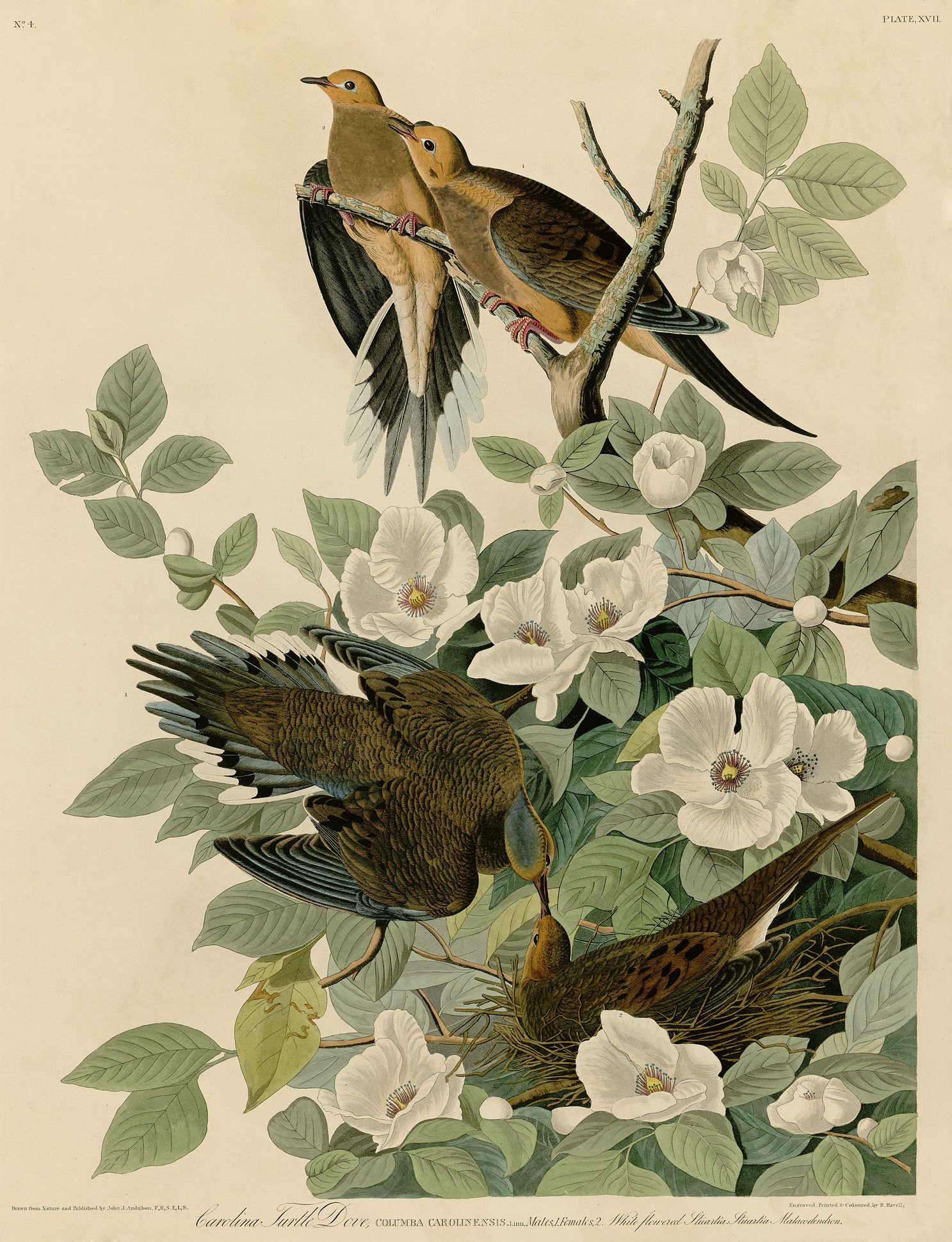 Plate 17 of Birds of America by John James Audubon depicting Carolina Turtle Dove.